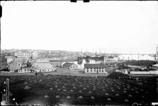 Sumarið 1930, séð yfir miðbæ Reykjavíkur og hluta hafnarinnar frá Arnarhóli. Ljósmyndari / Photographer: Magnús Ólafsson Format: Glerplata / Glass negatives, 10 x 15 cm. Höfundarréttur / Rights Info: Enginn þekktur höfundarréttur / No known restrictions on publication. Geymsla / Repository: Ljósmyndasafn Reykjavíkur / Reykjavík Museum of Photography, Tryggvagata 15, 6. Hæð / 6th floor Númer myndar / Call Number: MAÓ 1706 Myndavefur Ljósmyndasafnsins / Reykjavík Museum of Photography´s photoweb: ljosmyndasafn.reykjavik.is/fotoweb/Grid.fwx